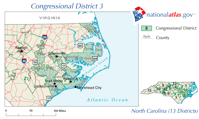 North Carolina's 3rd congressional district prior to 2012 redistricting